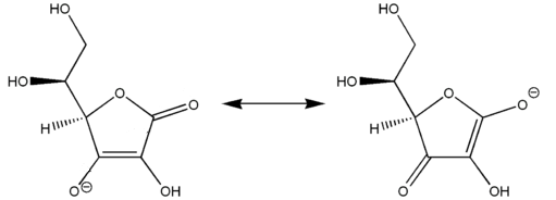 Canonical forms in resonance